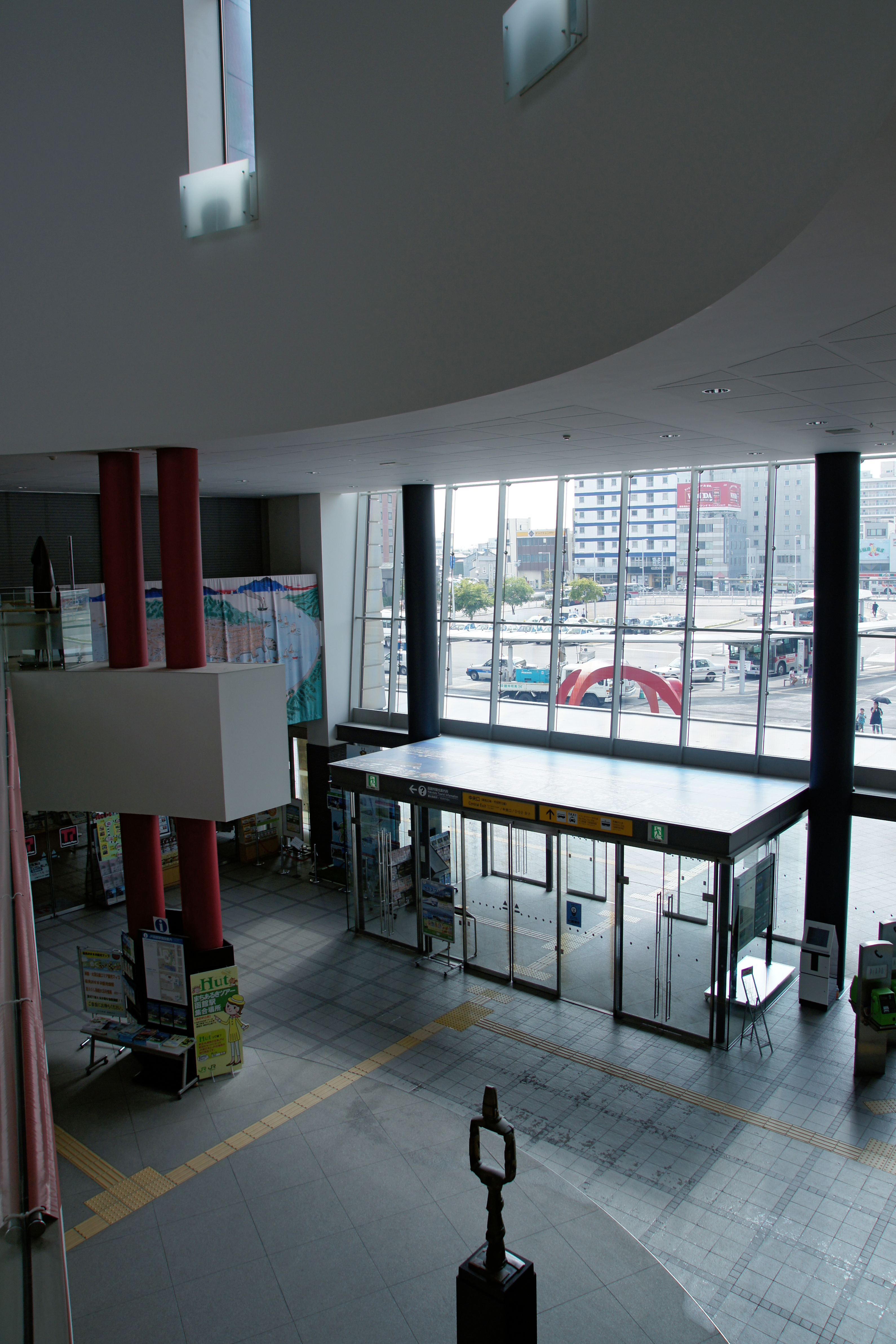 Hakodate Station in Hakodate, Hokkaido prefecture, Japan